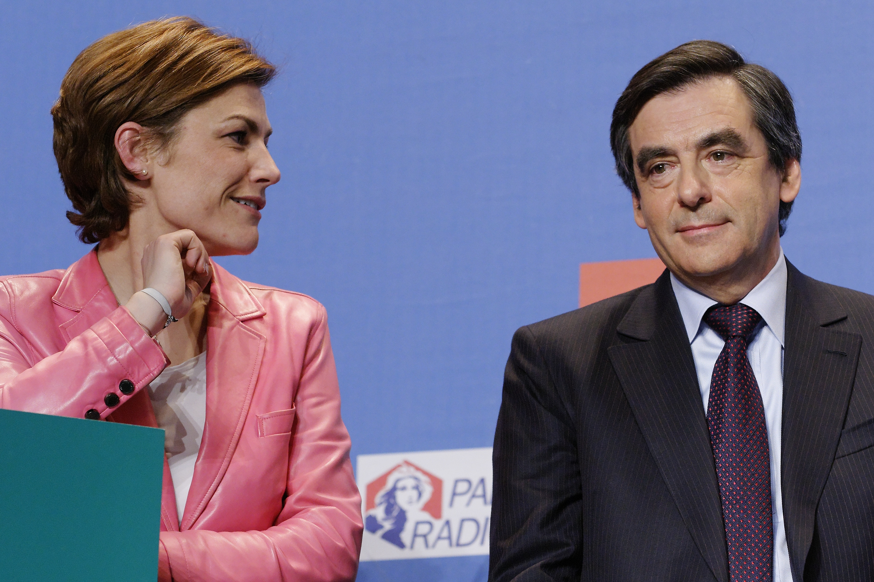 Chantal Jouanno (left) and François Fillon (right) at a UMP rally during the 2010 French regional elections campaign at the Maison de la Mutualité, Paris.